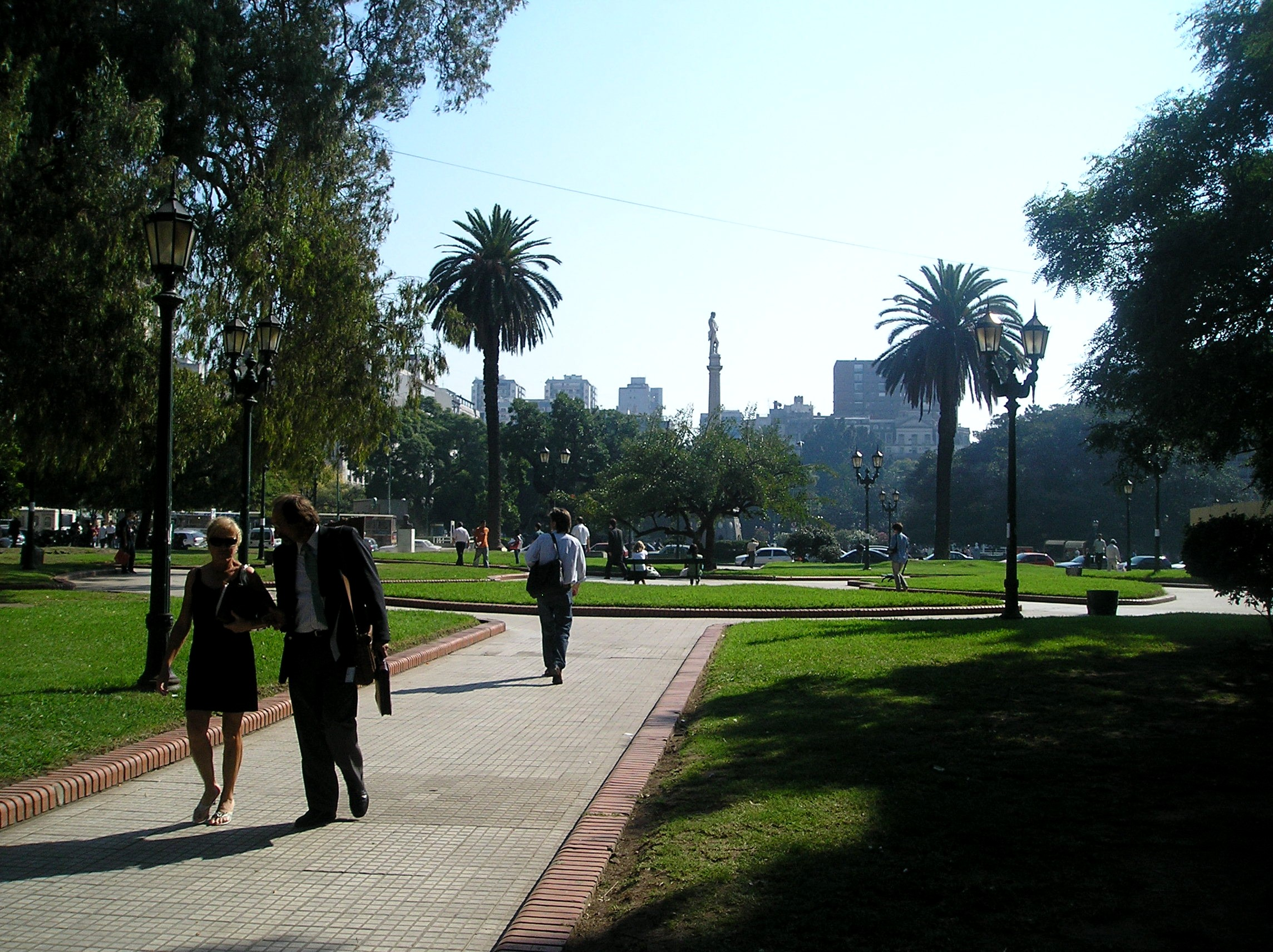 Plaza Lavalle vista desde el sur hacia el norte. Puede verse la columna en memoria de Juan Lavalle. Lavalle Square, seen from South to North; it can bee seen the Column inm memory of Juan Lavalle.